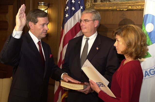 Michael O. Leavitt's swearing-in as the 10th Administrator of the EPA.